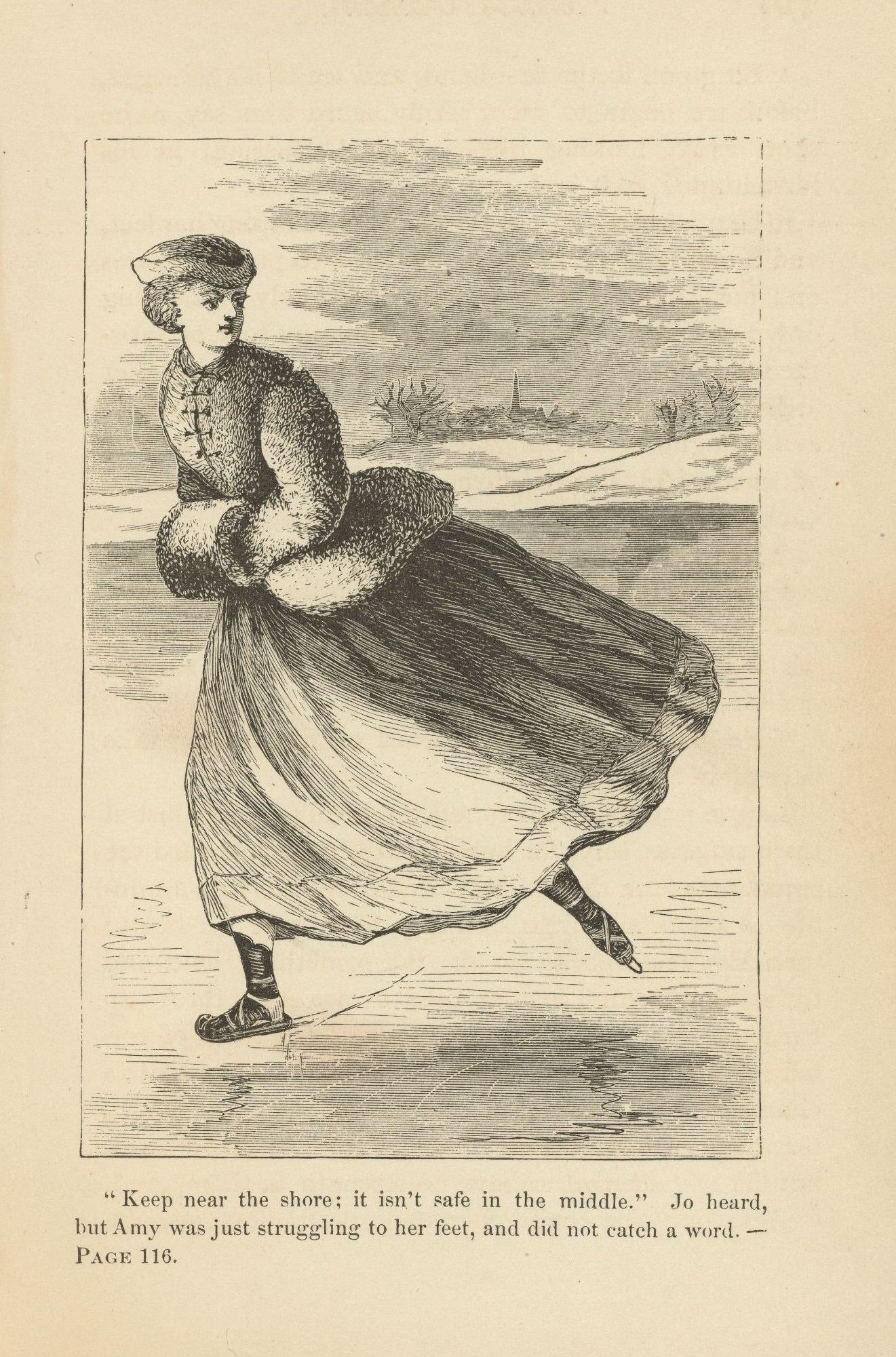 Frontispiece illustration from part 1 of Little Women by Louisa May Alcott (1832-1888), illustrated by her sister May Alcott. Boston: Roberts Brothers, 1868. *AC85.Aℓ194L.1869, Houghton Library, Harvard University